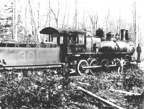 A photograph of a 4-8-0 locomotive owned by the Iron Range and Huron Bay Railroad.